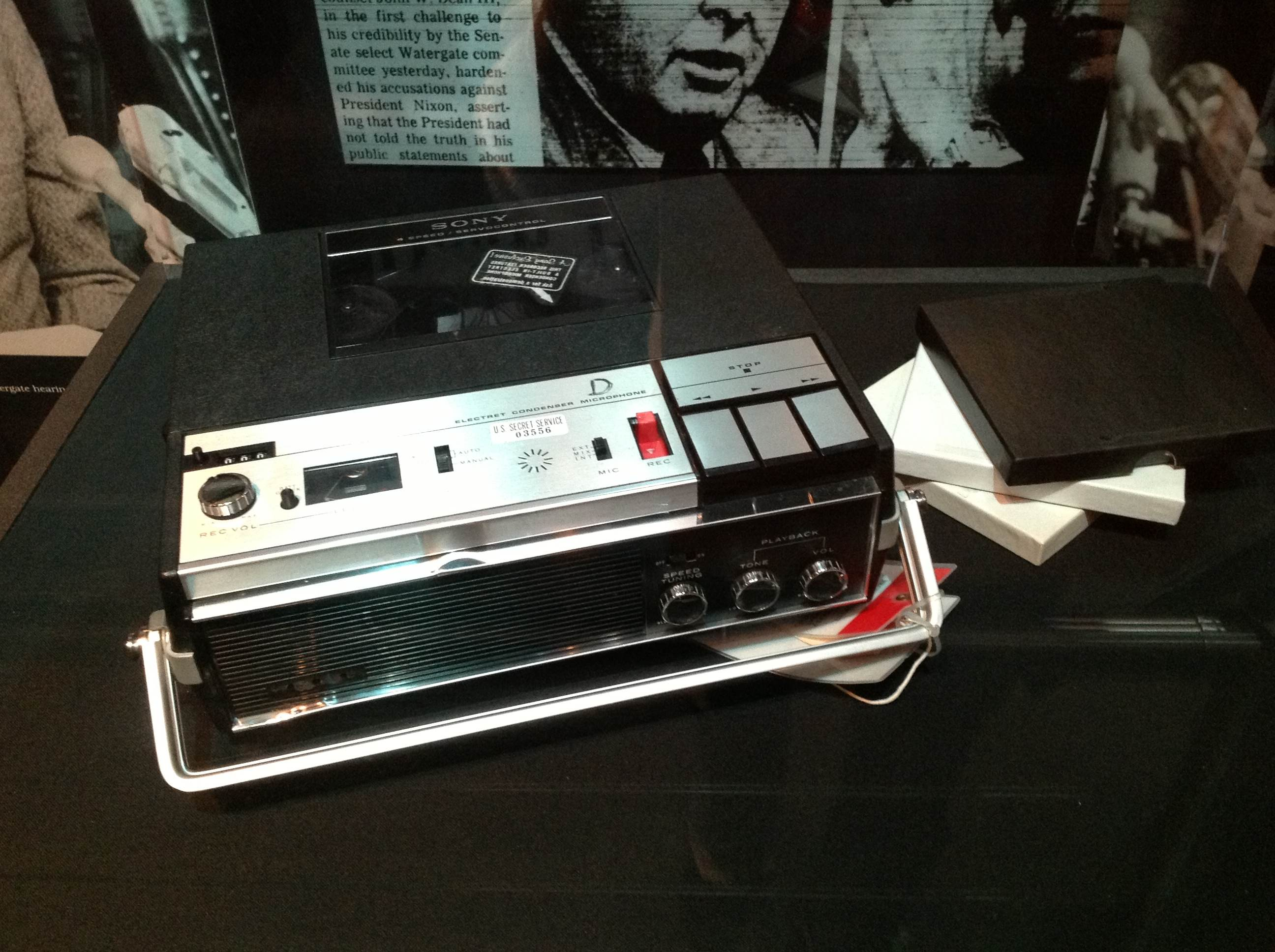 Tape recorder from President Nixon's Oval Office, as seen in the Museum's display on the events called "Watergate".